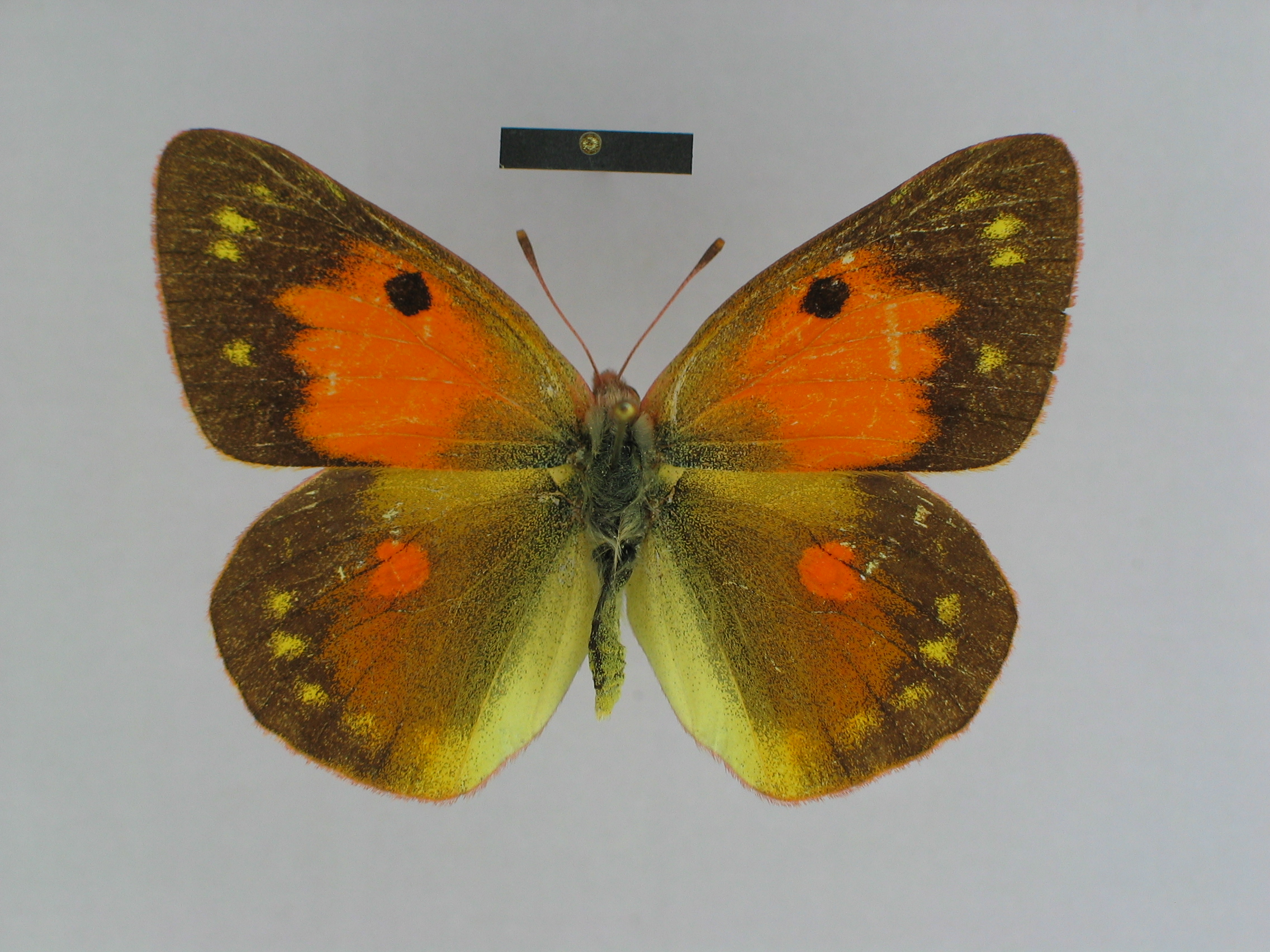 Paratype of the species Colias thisoa irtyschensis from the collection of the Zoological Museum of the Zoological Institute of the Russian Academy of Sciences (Berlin); ♀ dorsal side; scalebar=1 cm